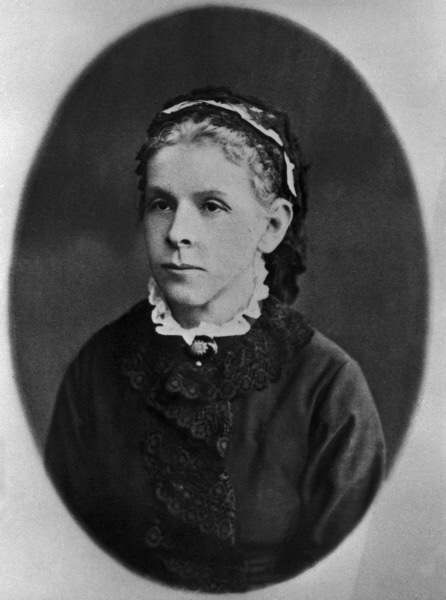 Maria Alexandrovna Ulyanova, mother of Vladimir Lenin. This photograph, is a reproduction from original copy, archived in the former Institute of Marxism-Leninism under Central Committee of the Communist Party of Soviet Union.